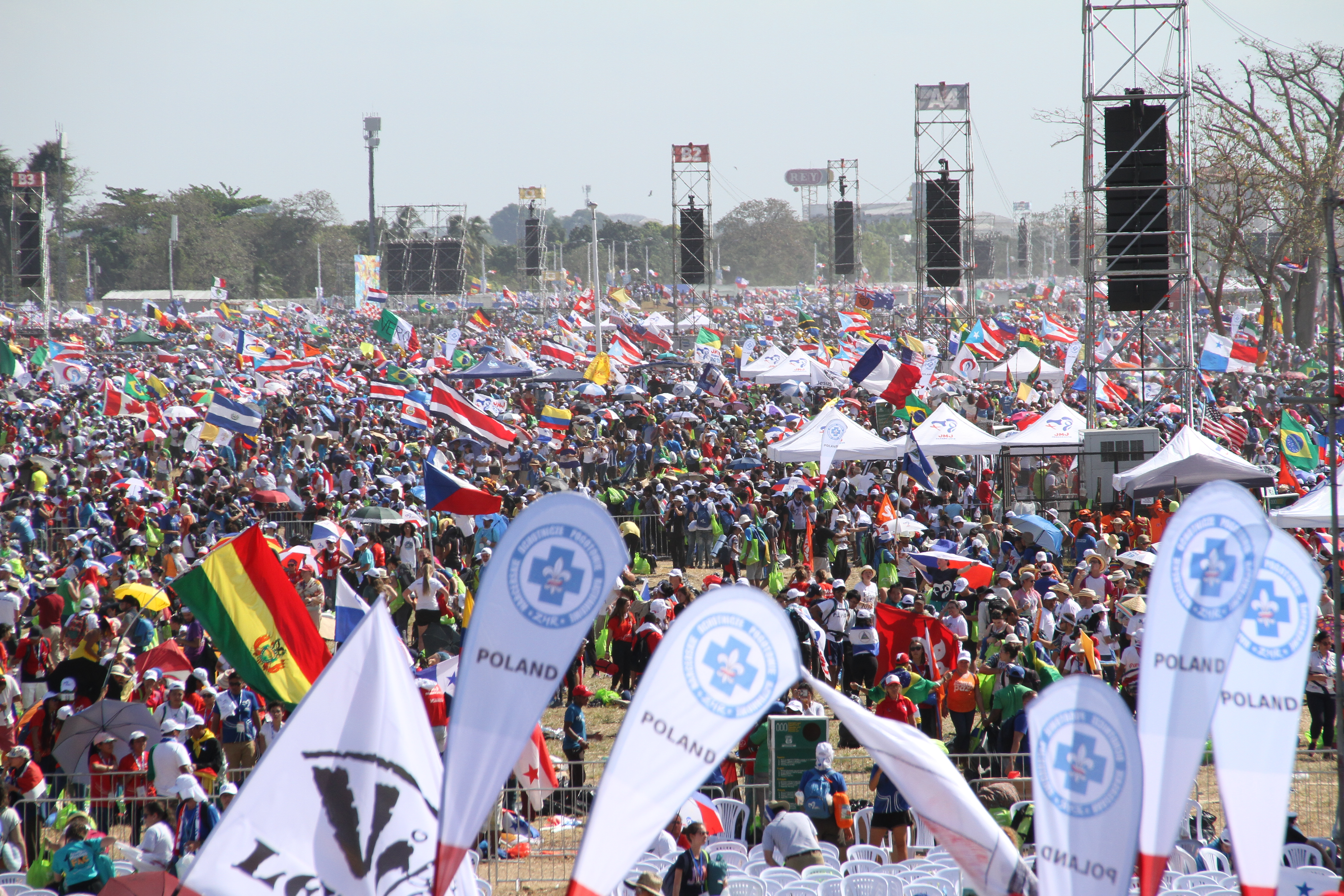 Concluding Mass